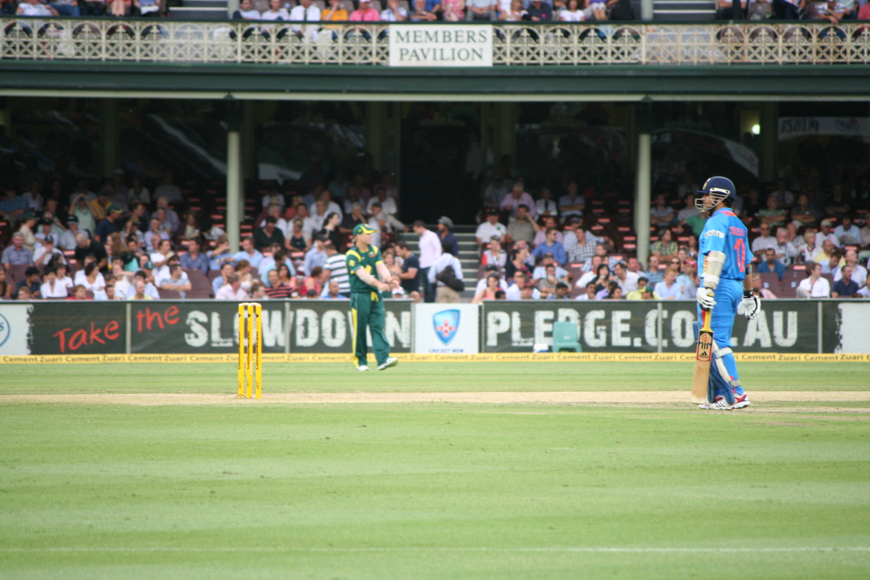 Sachin Tendulkar waiting at the crease